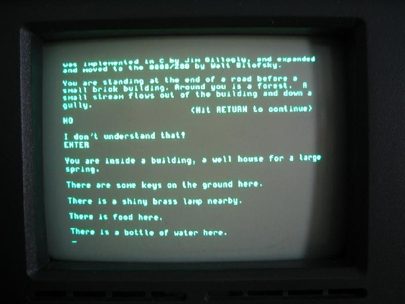 Image of ADVENT running on an Osborne II Computer circa 1982